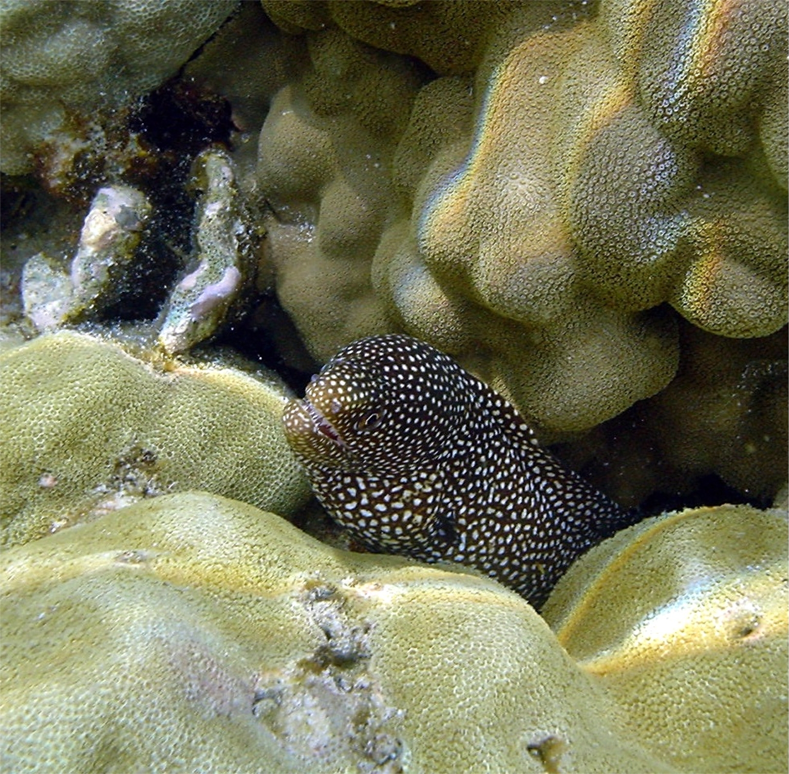 Moray eel Gymnothorax meleagris in Kona, Hawaii